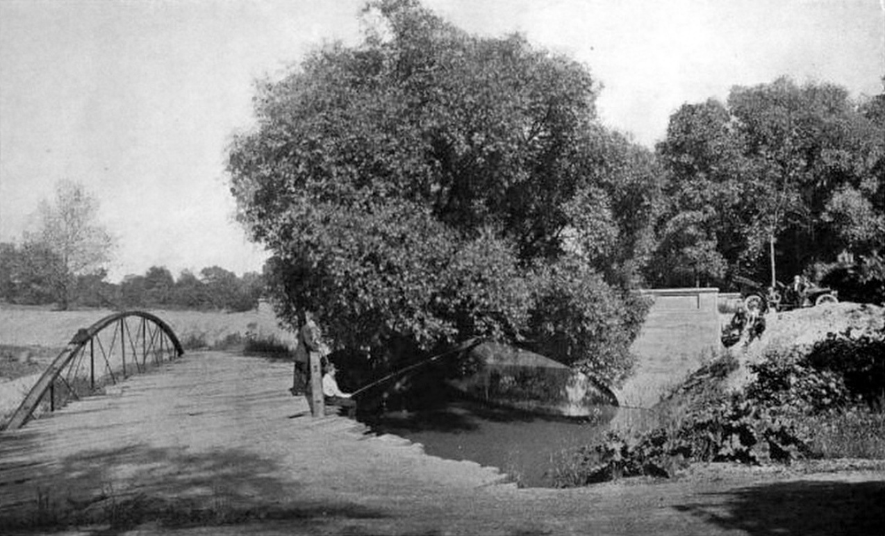 Old bridge carrying Lake Shore Blvd. over Euclid Creek (left) and new bridge carrying the same (center, behind trees) in Euclid, Ohio, in the United States in 1909.